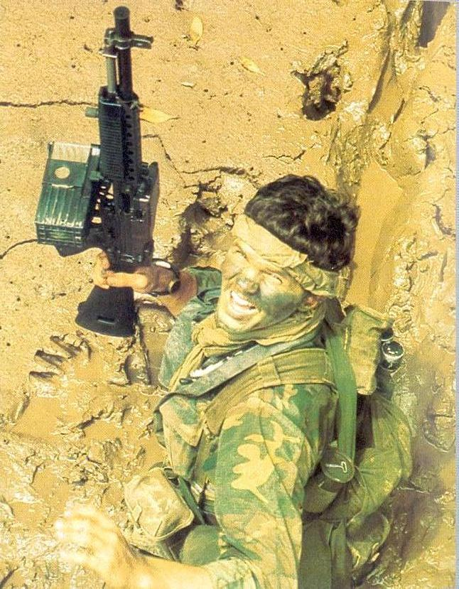 SEAL team member moves through deep mud as he makes his way ashore from a boat, during a combat operation in South Vietnam, May 1970. His gun is a MK 23 5.56mm machine gun (Stoner 63). Note his camouflage uniform and face paint